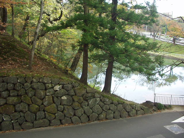 Goshiki Marsh (moat) and stone wall at Sendai Castle. Sendai, Miyagi prefecture, Japan.